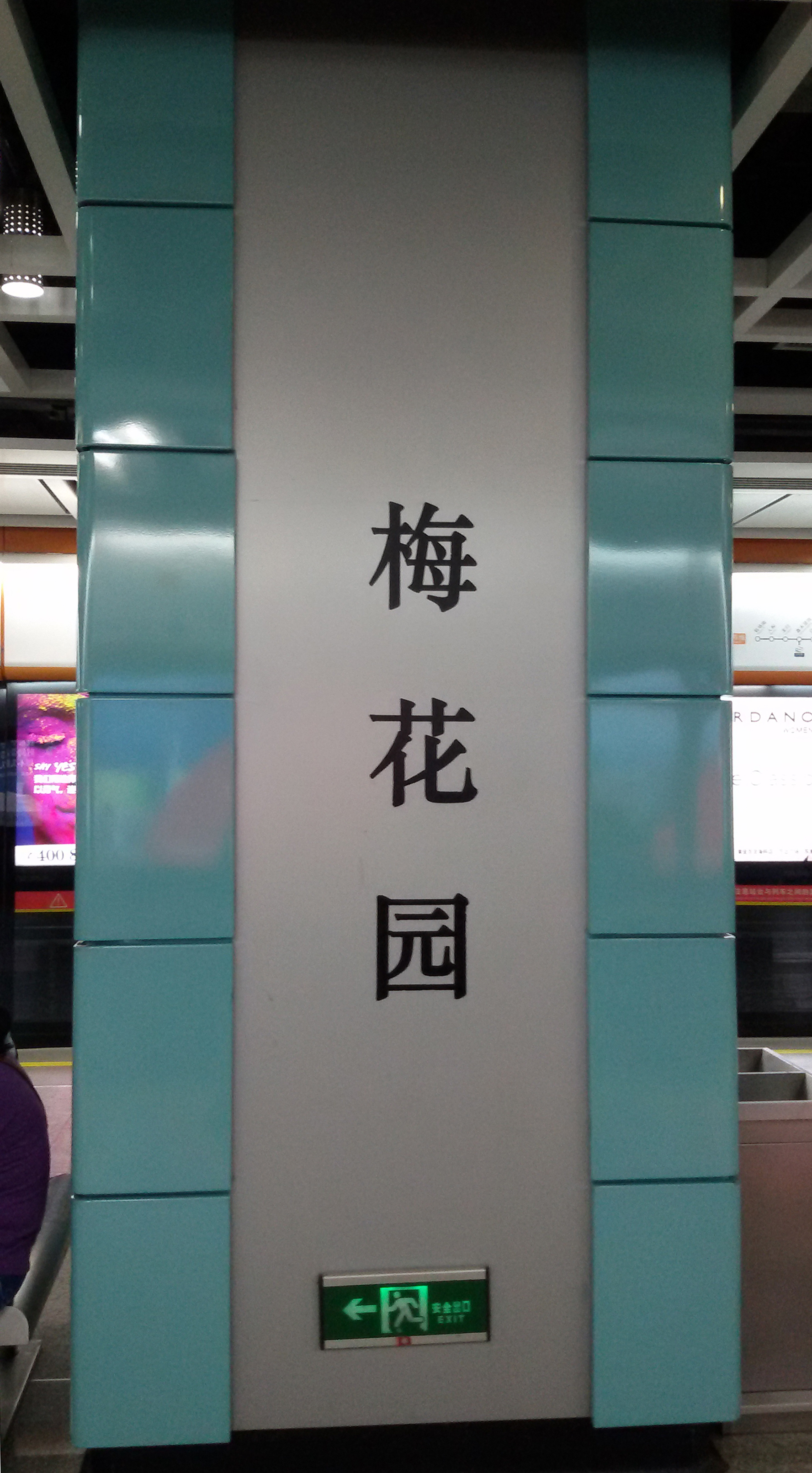 WORD on PILLAR for Meihuayuan Station in Guangzhou Metro